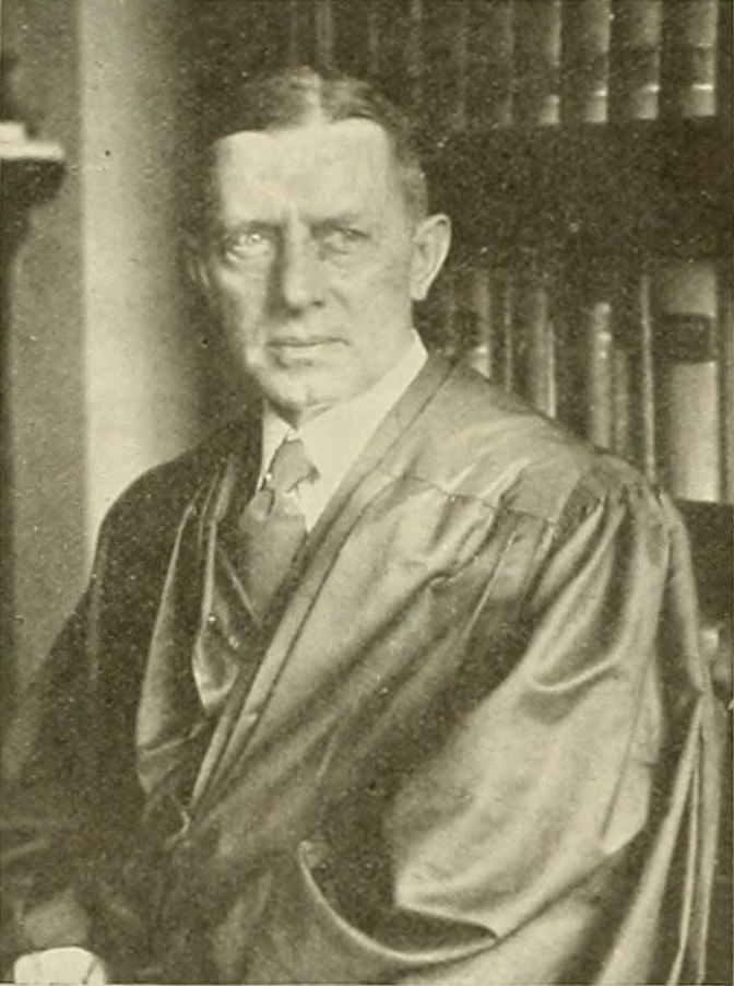 Adolph August Hoehling Jr. (United States federal judge)